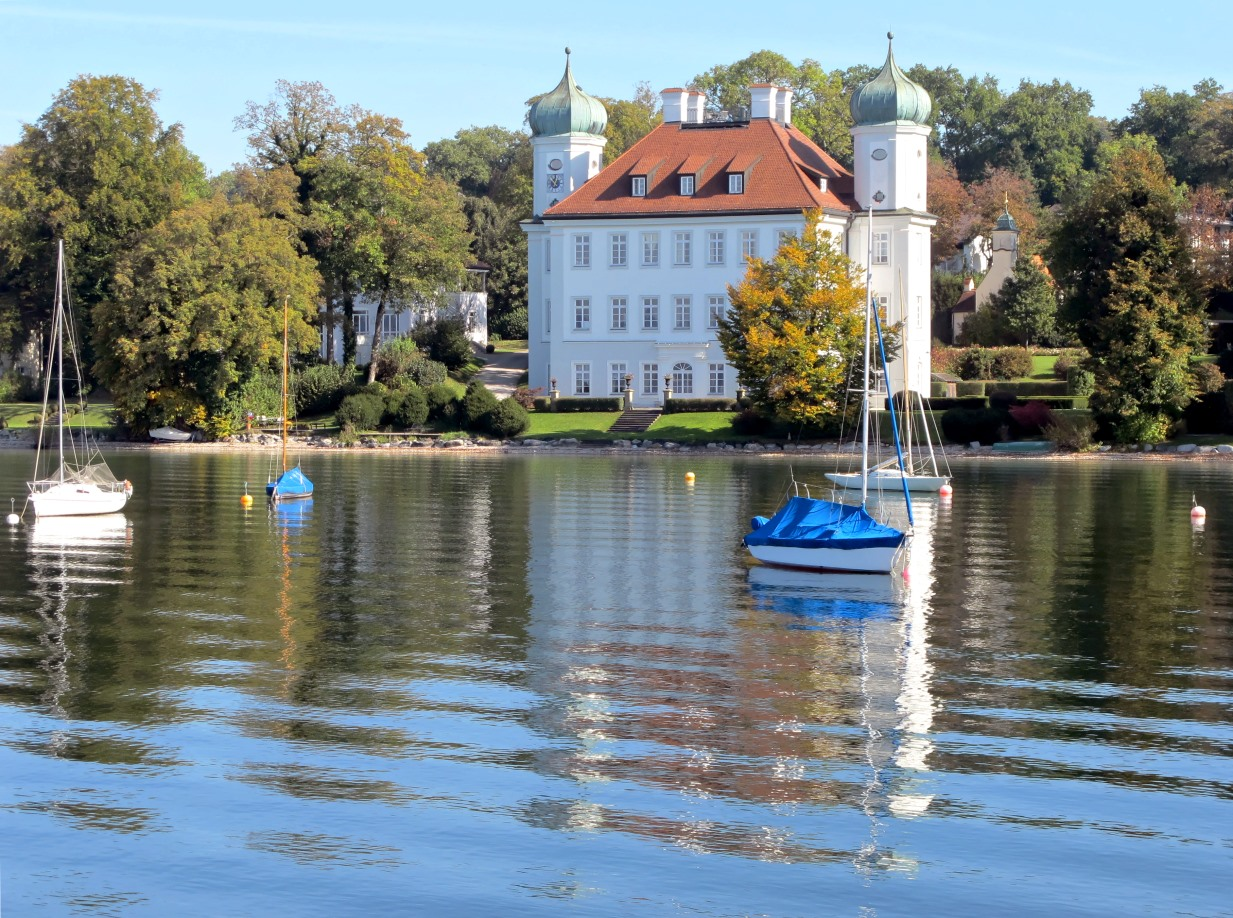 Castle "Ammerland"